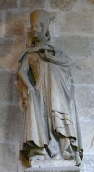 Elisabeth of Hohenstaufen